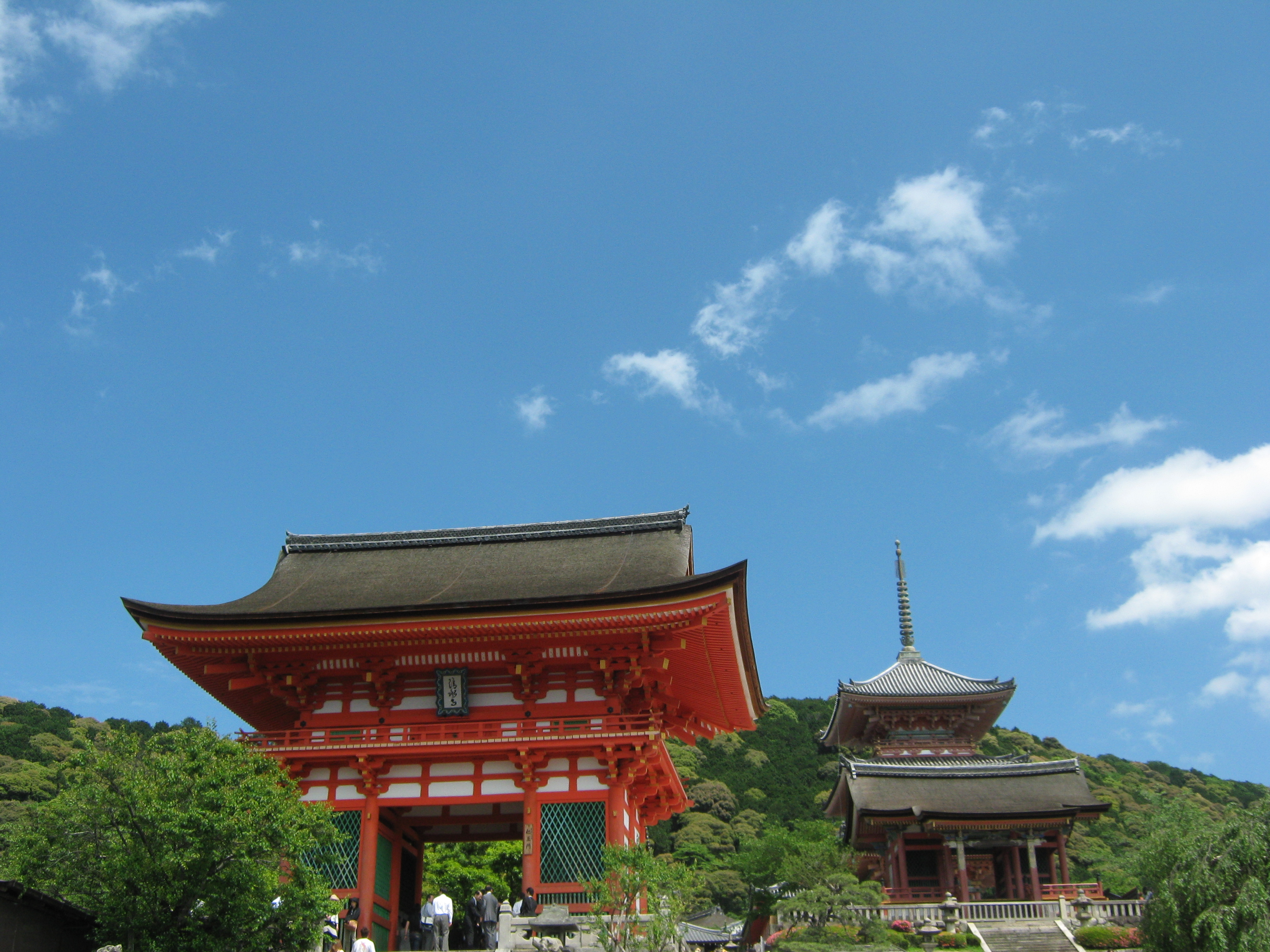 Kiyomizu-dera National Treasure World heritage Kyoto 国宝・世界遺産 清水寺 京都